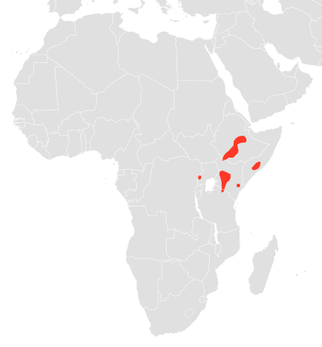 Distribution of Epomophorus minimus